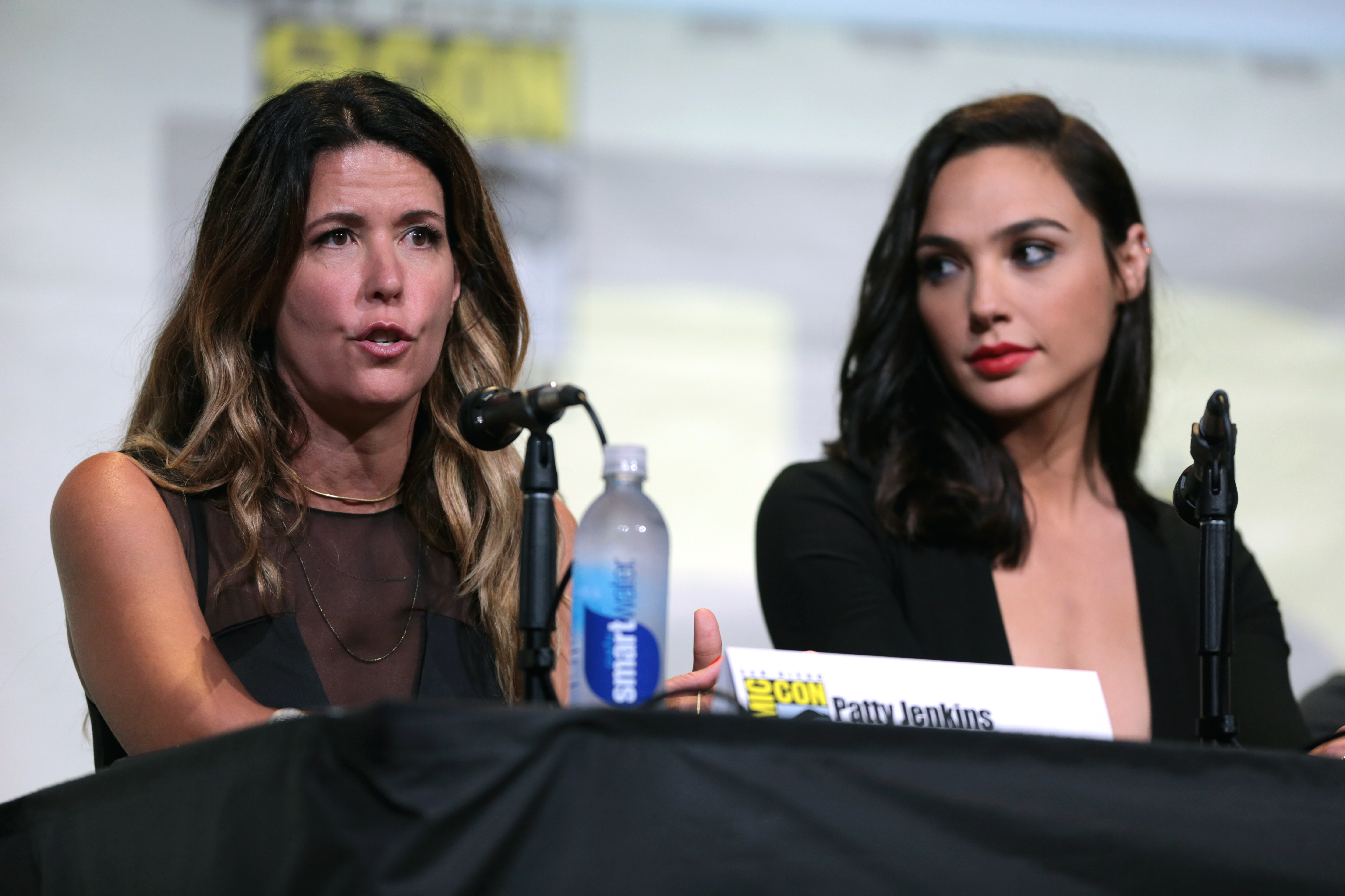 Patty Jenkins and Gal Gadot speaking at the 2016 San Diego Comic Con International, for "Wonder Woman", at the San Diego Convention Center in San Diego, California.